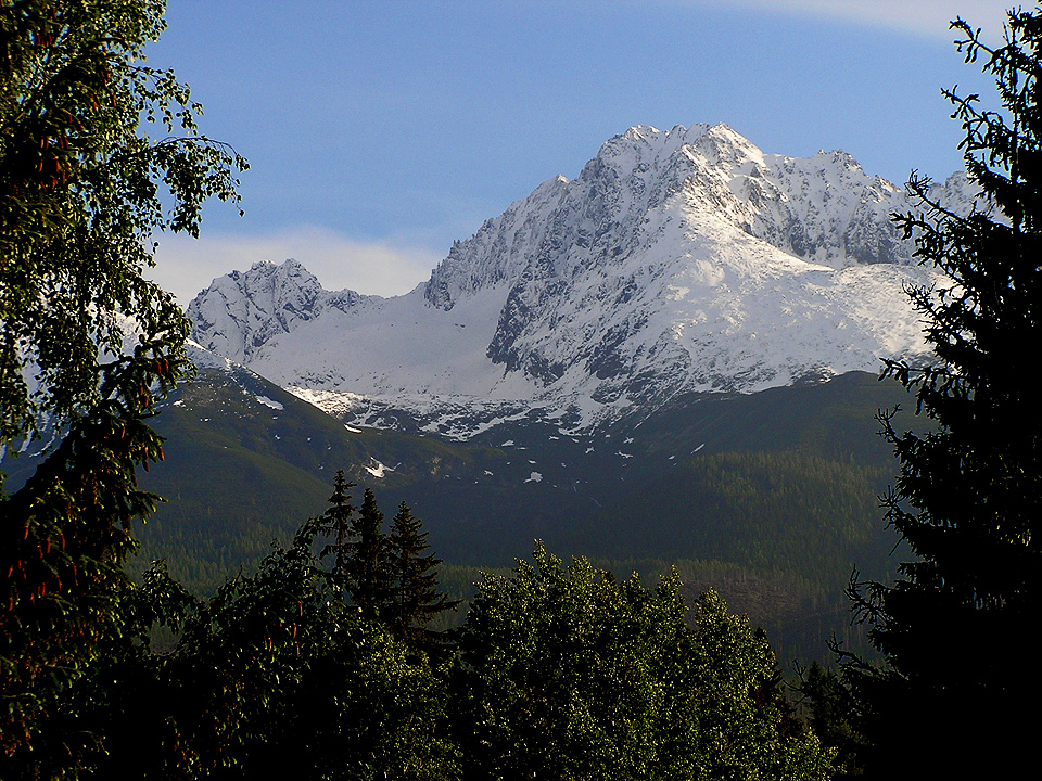 Gerlach, South Face